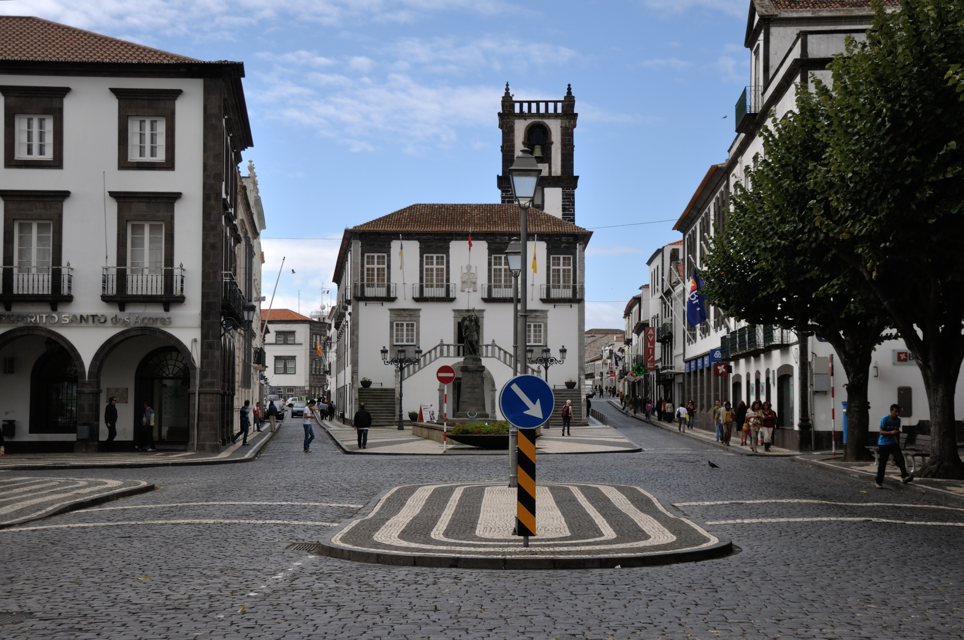 Portugal, views of Ponta Delgada